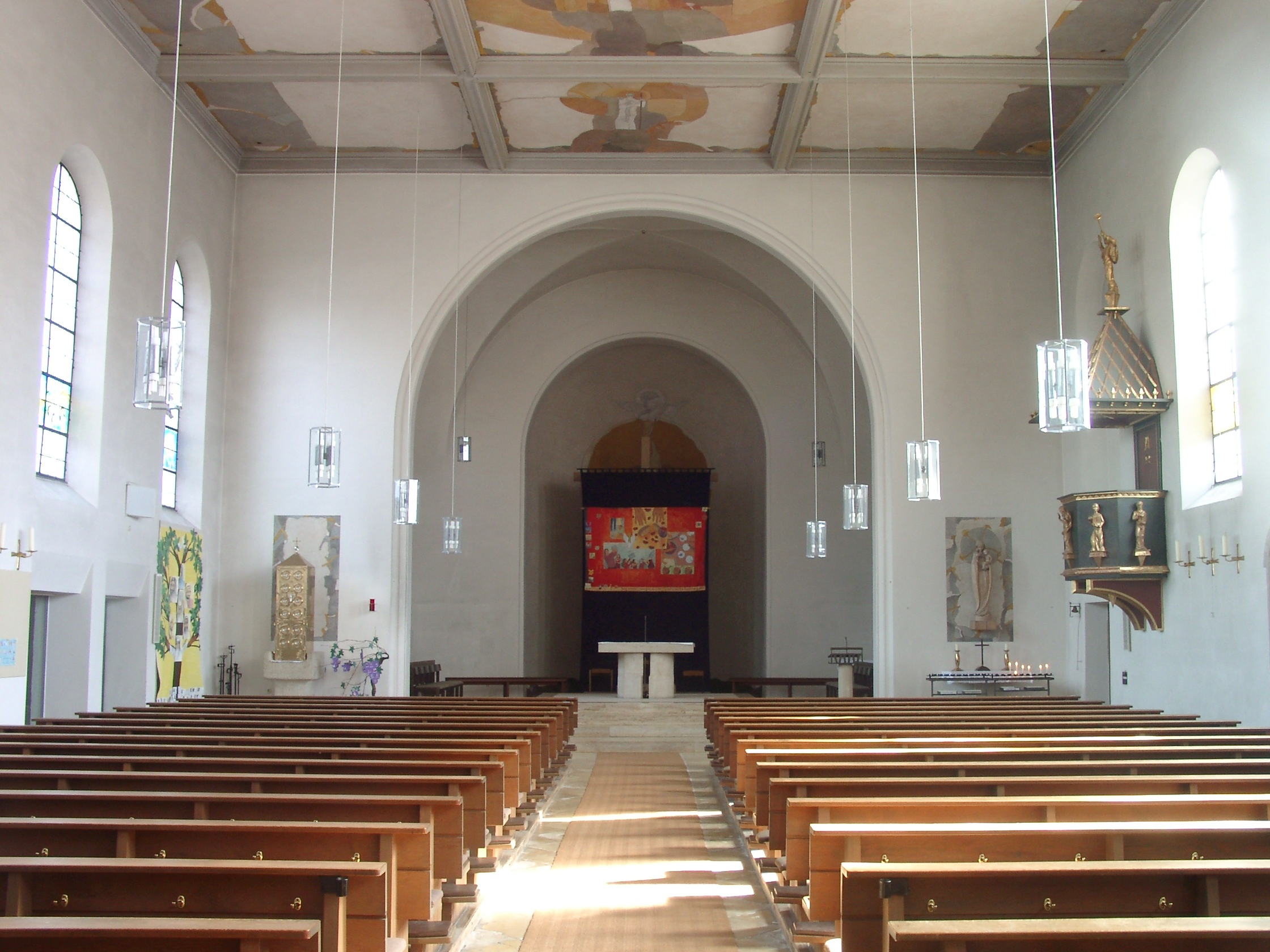 Gersthofen, interior view of St James' Parish Church to east.